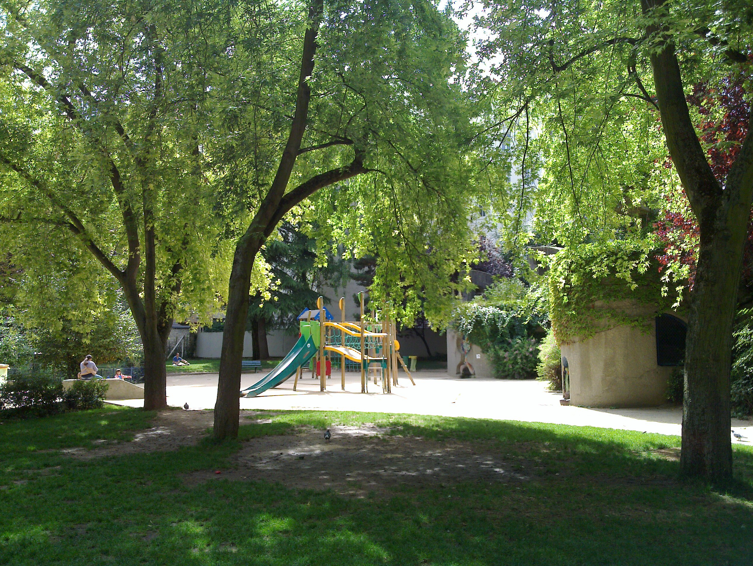 Square du Clos Feuquières, Paris